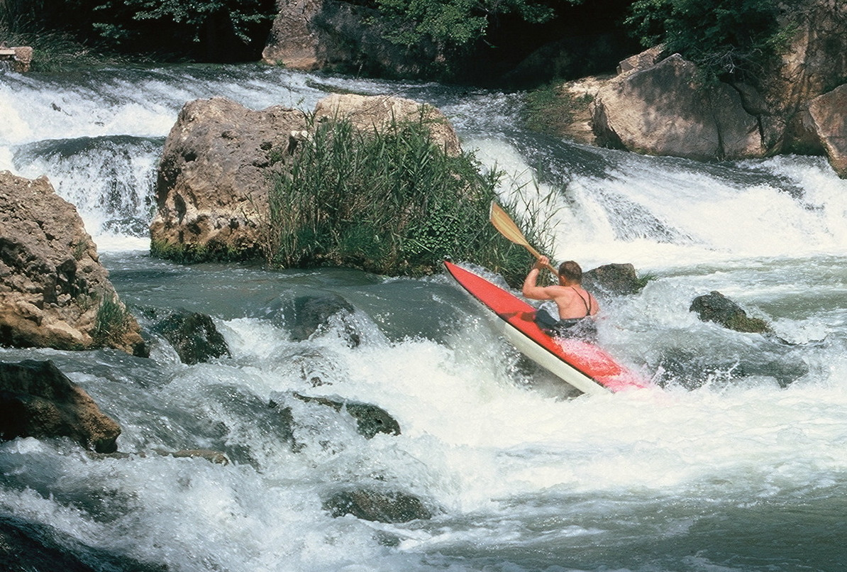 The time before safety gear came around